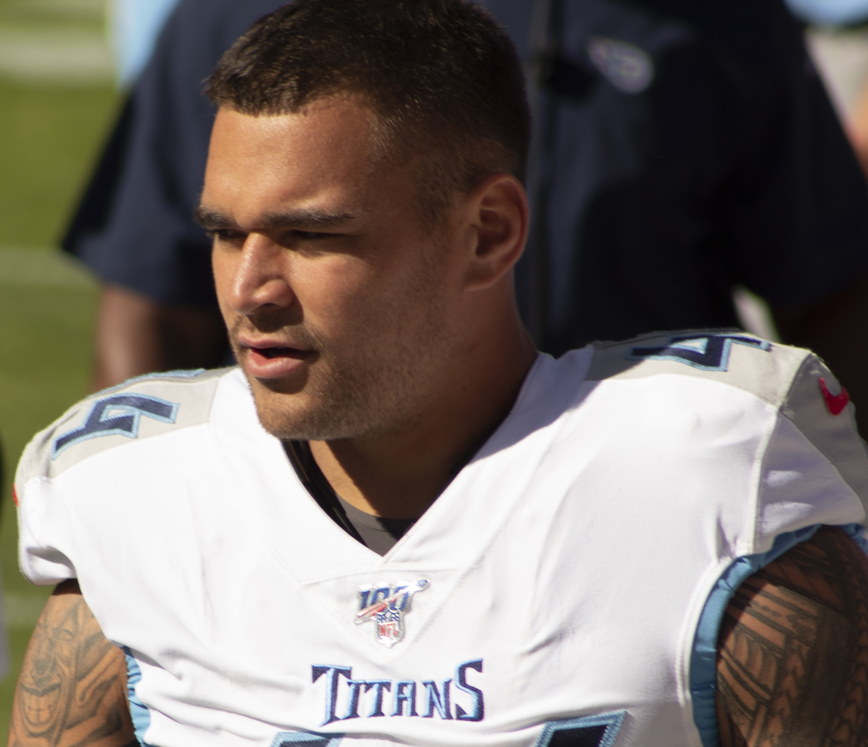 Kamalei Correa with the Tennessee Titans on October 13, 2019